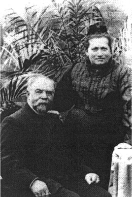 Hermann Bergmann, a member of the Third and Fourth Russian State Duma from Piotrków Governorate 1907-1917 and his wife.